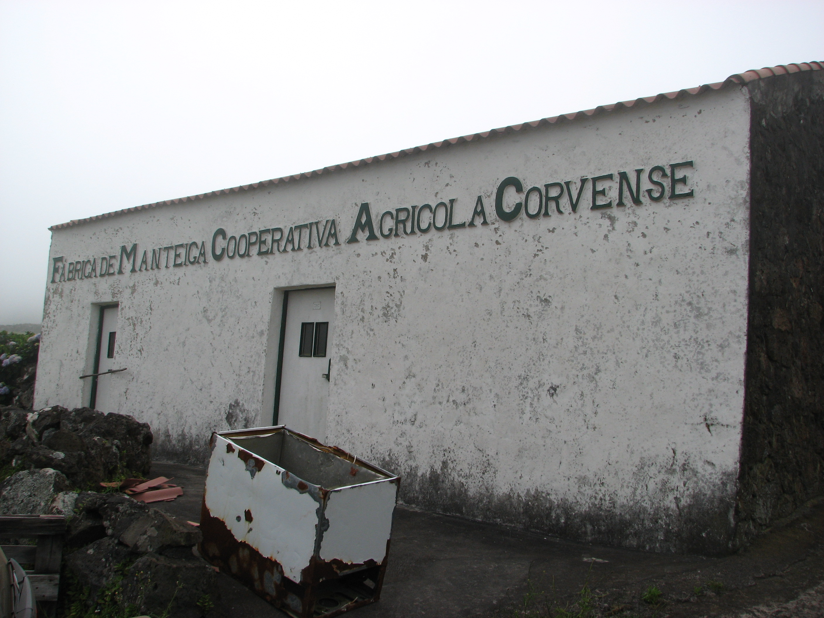 The cooperative butter factory of Corvo, Azores.